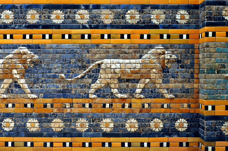 Detail of the Ishtar-Gate